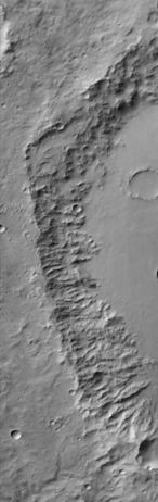 Beer crater, as seen my mro's ctx. Location is 14.63 south latitude and 351.24 east longitude. MRO is operated by the Jet Propulsion Laboratory. CTX is operated by Malin Space Science Systems. Picture credit is Malin Space Science Systems/NASA.